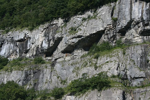 The gun battery Ermitage of the fortification Scex in St. Maurice - Suisse